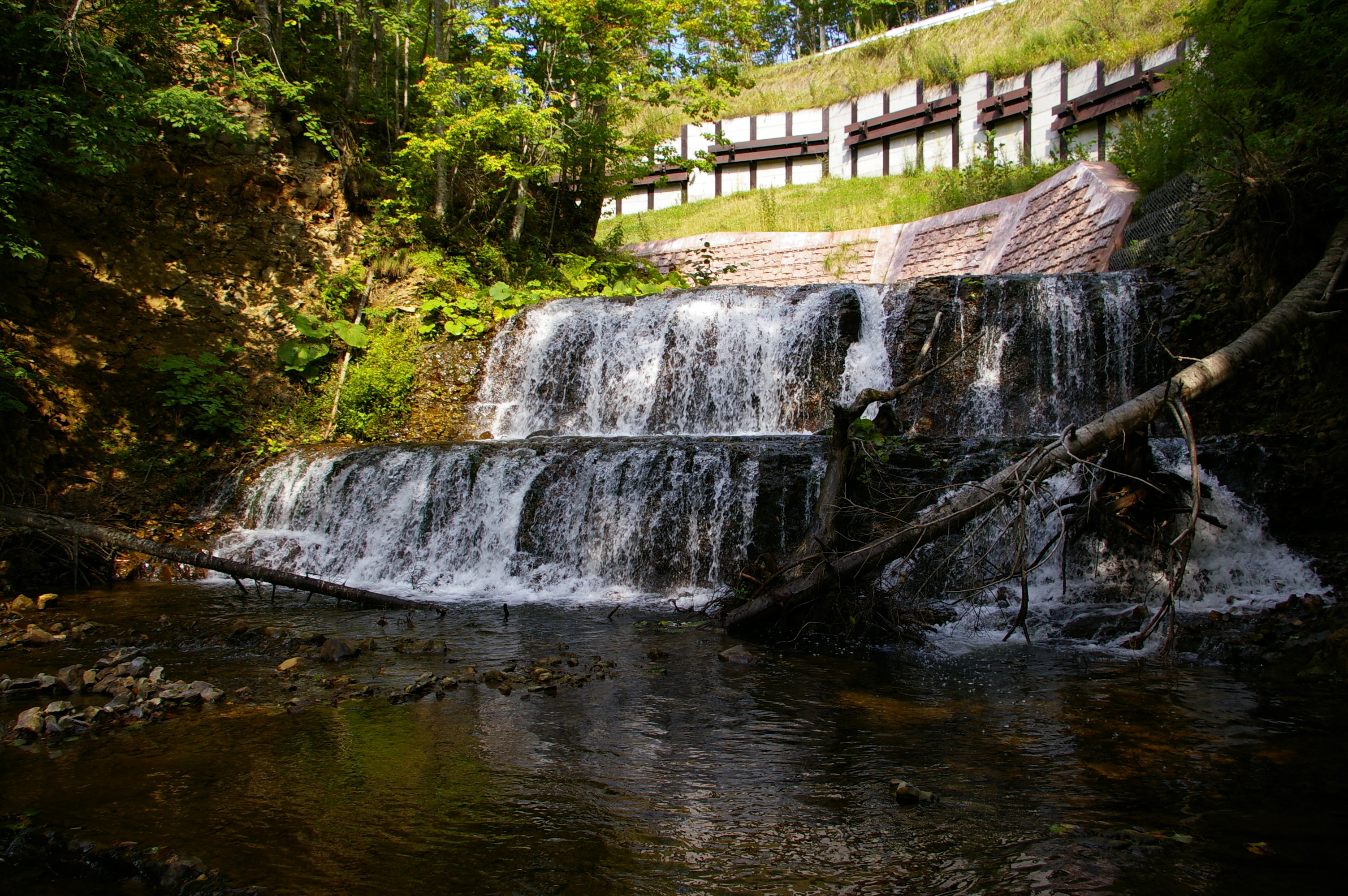 Rokumei Fall, near Chimikeppu Lake, in Tsubetsu, Hokkaido